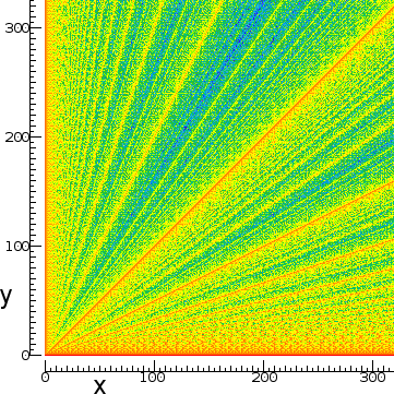 Plot of the number of iterations used by the Euclidean algorithm to compute gcd(x, y) for x and y from 0 to 300. (Red is 0, the following colors in the spectrum correspond to higher values).